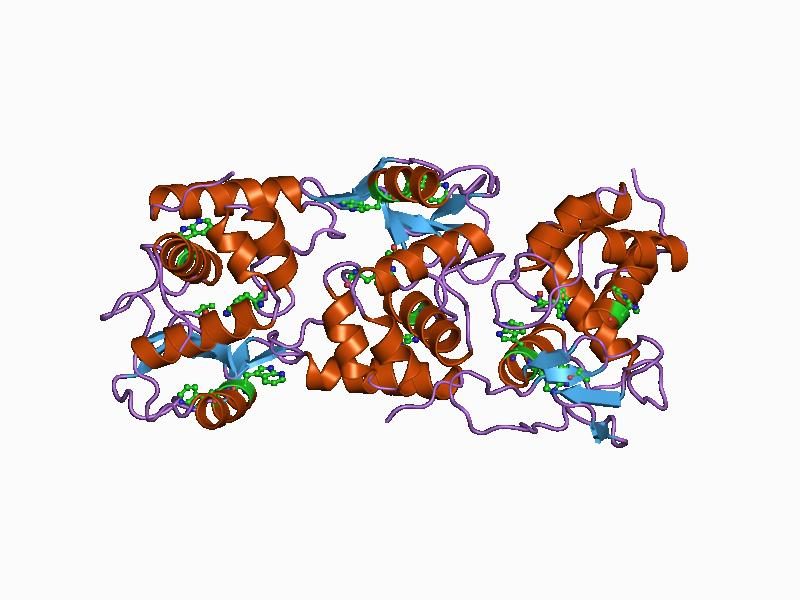 Cartoon representation of the molecular structure of protein registered with 1am7 code.